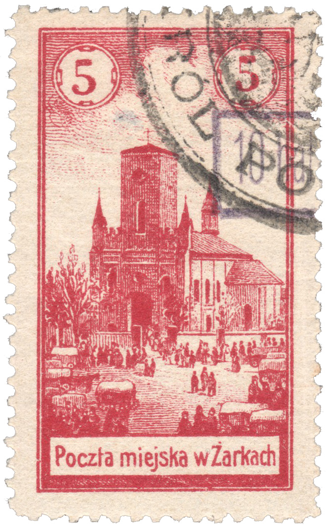 October 18, 1918 cancelled issue of Żarki local post with 10h hand-stamp on 5h stamp.